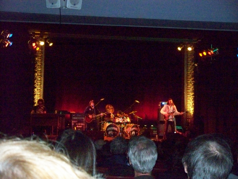 The Vanilla Fudge, known for their 1967 hit"You Keep Me Hanging On": Mark Stein-keyboards, vocals; Vince Martell-guitar, vocals; Carmine Appice-drums; Pete Bremy-replacing original bassist Tim Bogert who is temporarily not touring with them. Performed at the Regent Theater in Arlington, Massachusetts on March 26, 2011.